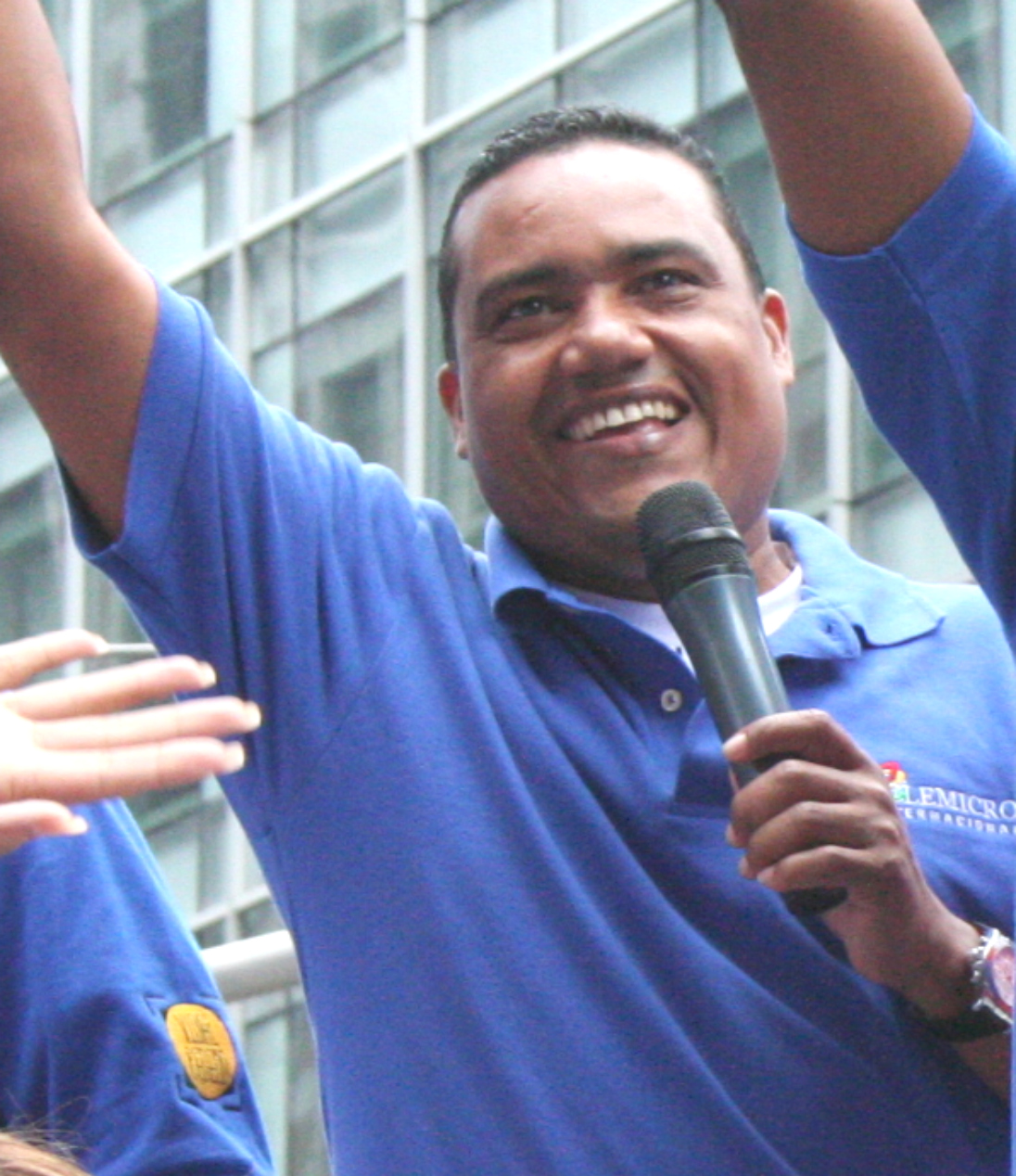 adjusted version of Image:Miguel_Raymond.jpg